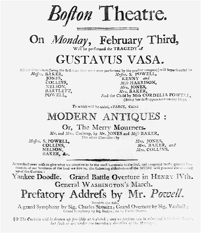 Boston Theatre. On Monday, February third, will be performed the tragedy of Gustavus Vasa. To which will be added, a farce, called Modern antiques: or, The merry mourners.